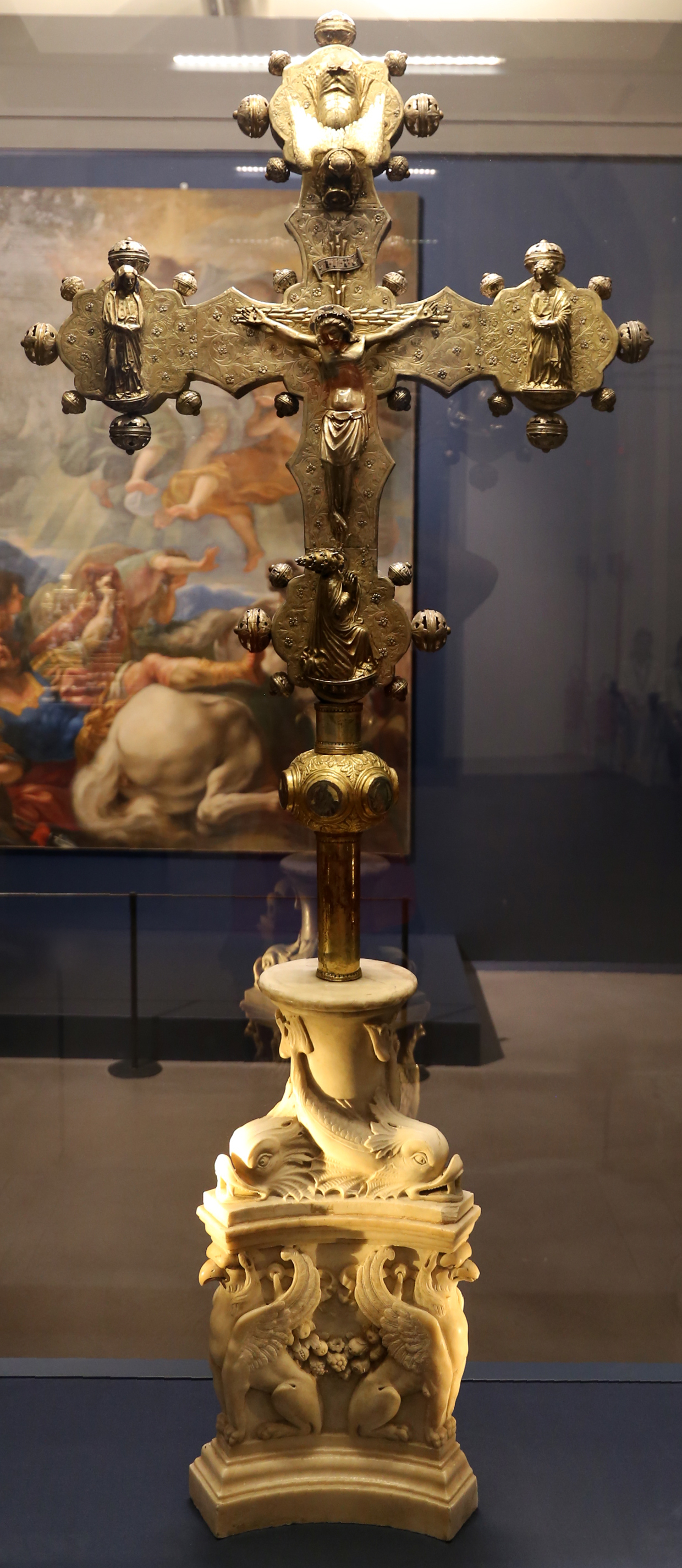 Facciamo presto! (2016-2017 exhibition)